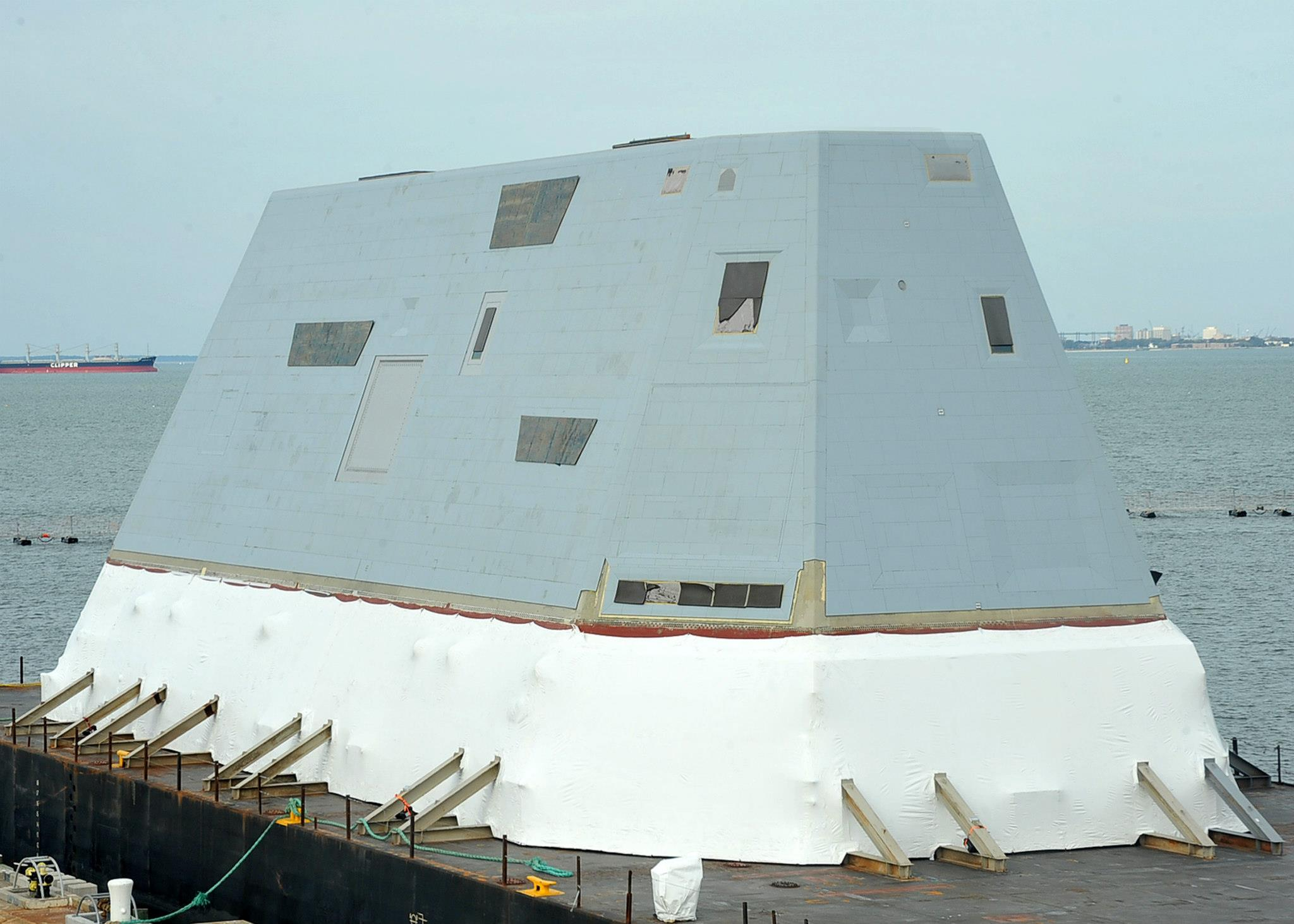 121106-N-KQ416-026 NORFOLK (Nov. 6, 2012) The deckhouse for the future USS Zumwalt (DDG 1000) sits on a barge at Norfolk Naval Station after being diverted due to weather during transit from Huntington Ingalls Industries' Gulfport Facility in Mississippi to General Dynamics-Bath Iron Works shipyard in Maine. The DDG 1000-class destroyer is designed for sustained operations in the littorals and a land attack, and will provide independent forward presence and deterrence, support special operations forces, and operate as an integral part of joint and combined expeditionary focus. (U.S. Navy photo by Mass Communication Specialist 3rd Class Zachary S. Welch/Released)